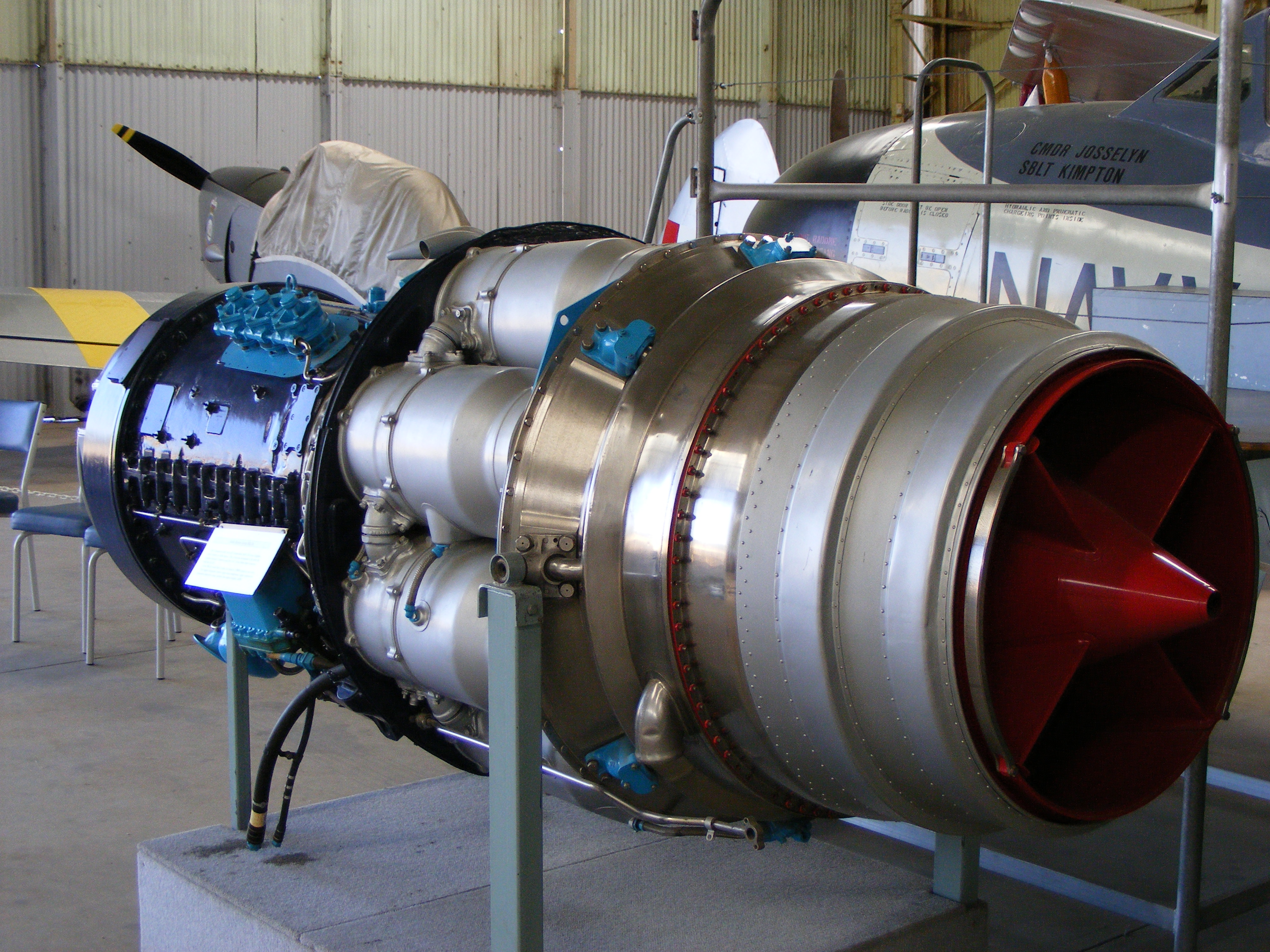 Rolls Royce Avon Mk 26 Engine on static display at the the Classic Jets Fighter Museum, Parafield airport, Adelaide, South Australia. Built by the Commonwealth Aircraft Corporation under licence. This type used in the Canberra bomber and Avon Sabre